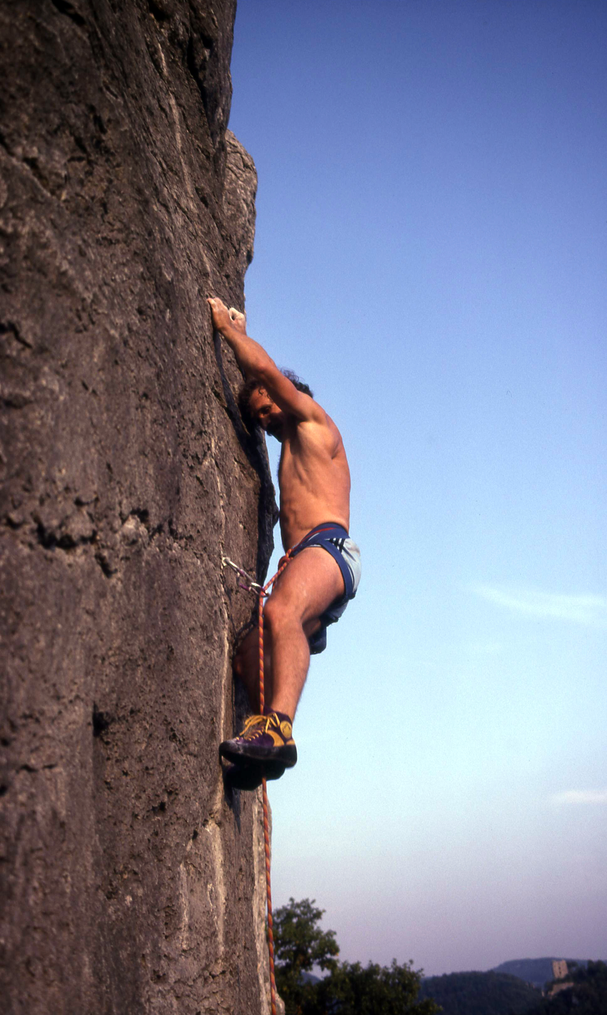 Kurt Albert, Frankenjura. Climbing at the rock "Streitberger Schild" near Streitberg with the Castle Neideck in background.